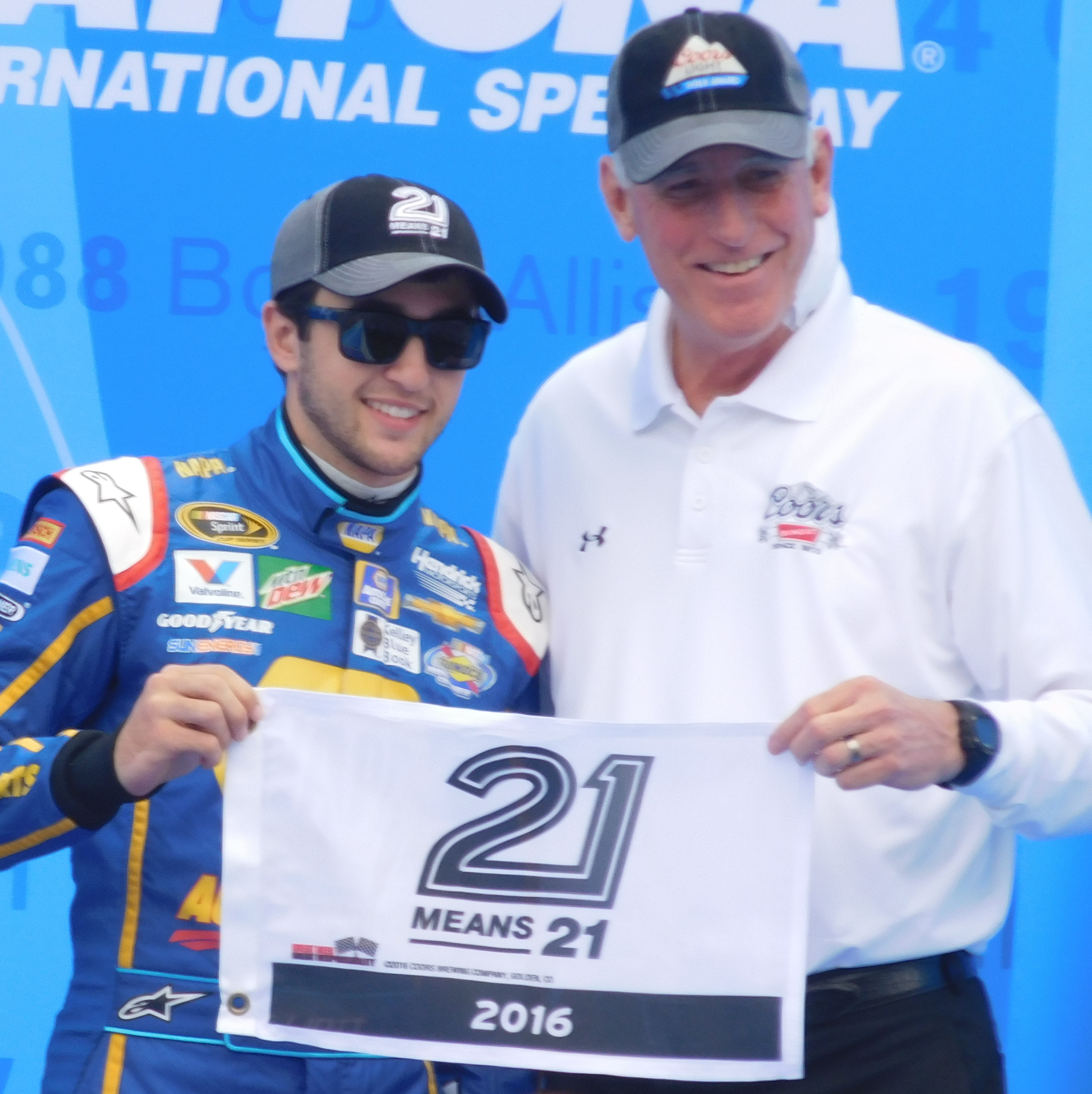 Chase Elliott during driver introductions before the 2016 Daytona 500